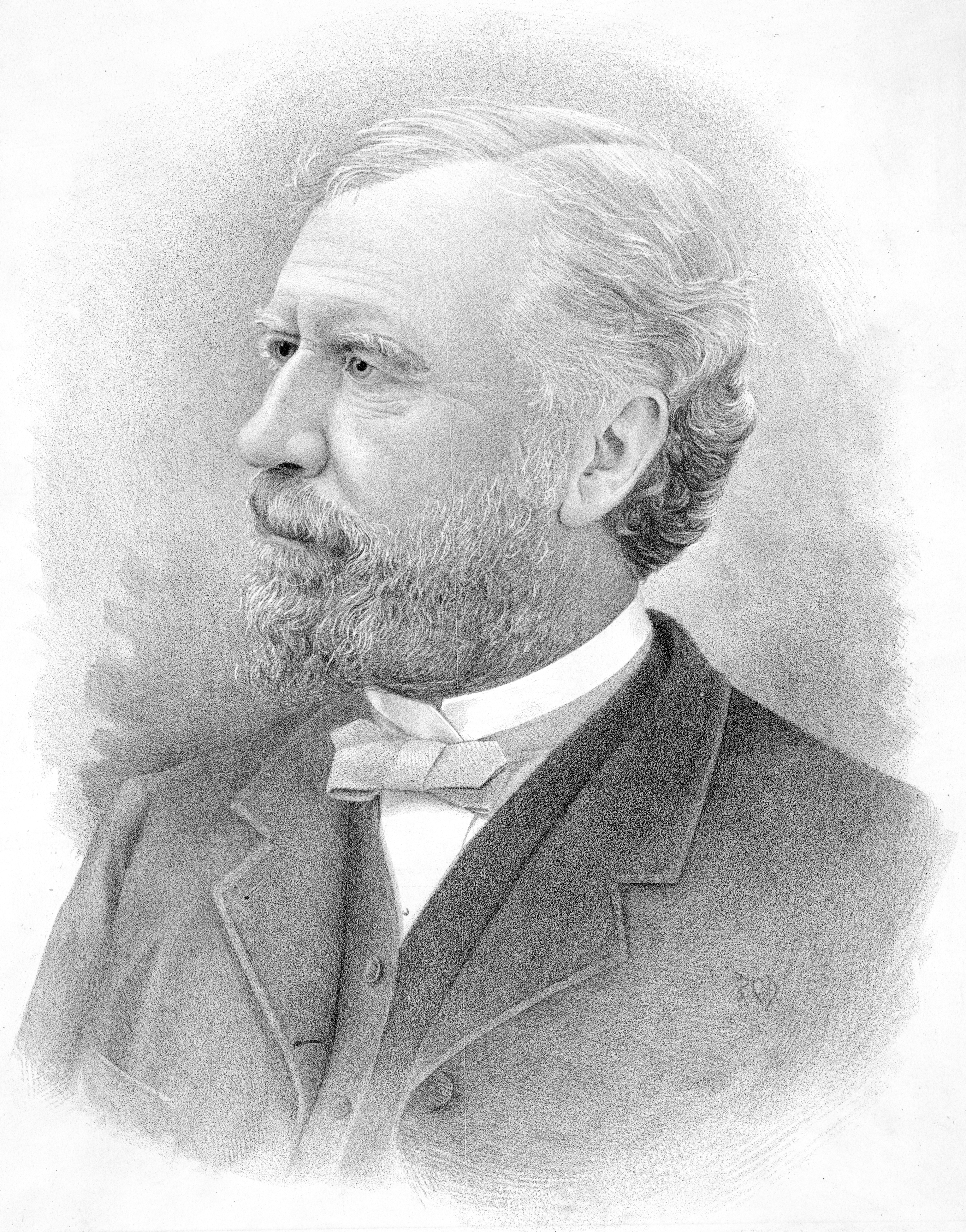 Albert G. Porter PCD. PGA - Baker & Randolph--Albert G. Porter (D size) print Inscribed in pencil "Baker & Randolph" lower left. After a photo by Clark.